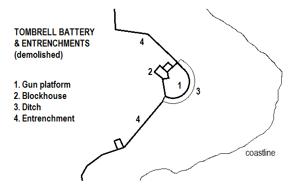 Map of Tombrell Battery and the nearby entrenchments, Marsaxlokk Malta. The battery was demolished in the late 19th century, and today only the ditch remains.